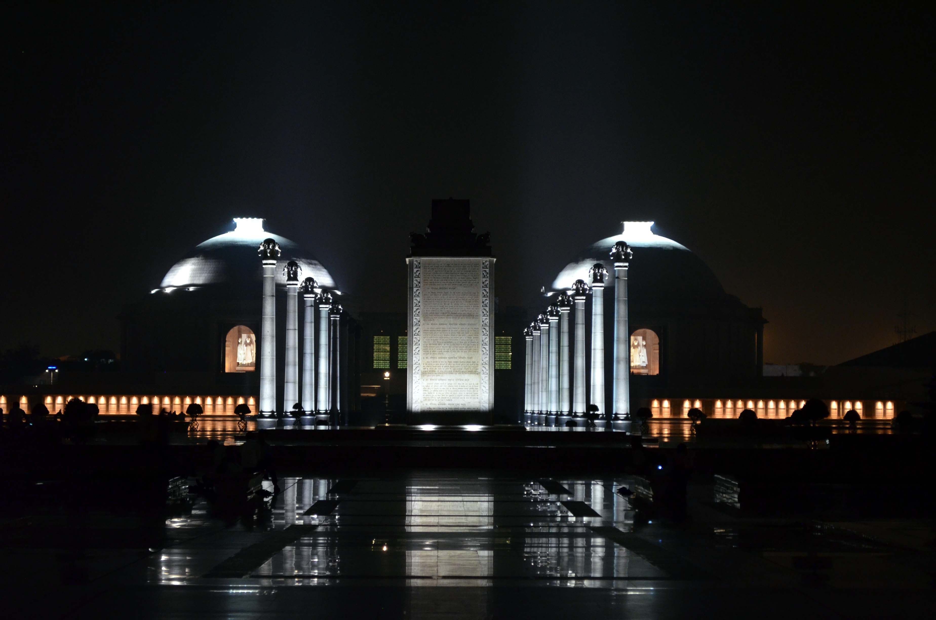 Built by Ms Mayawati The Ex CM of Lucknow in the Name of Dr. Bhim Rao Ambedkar